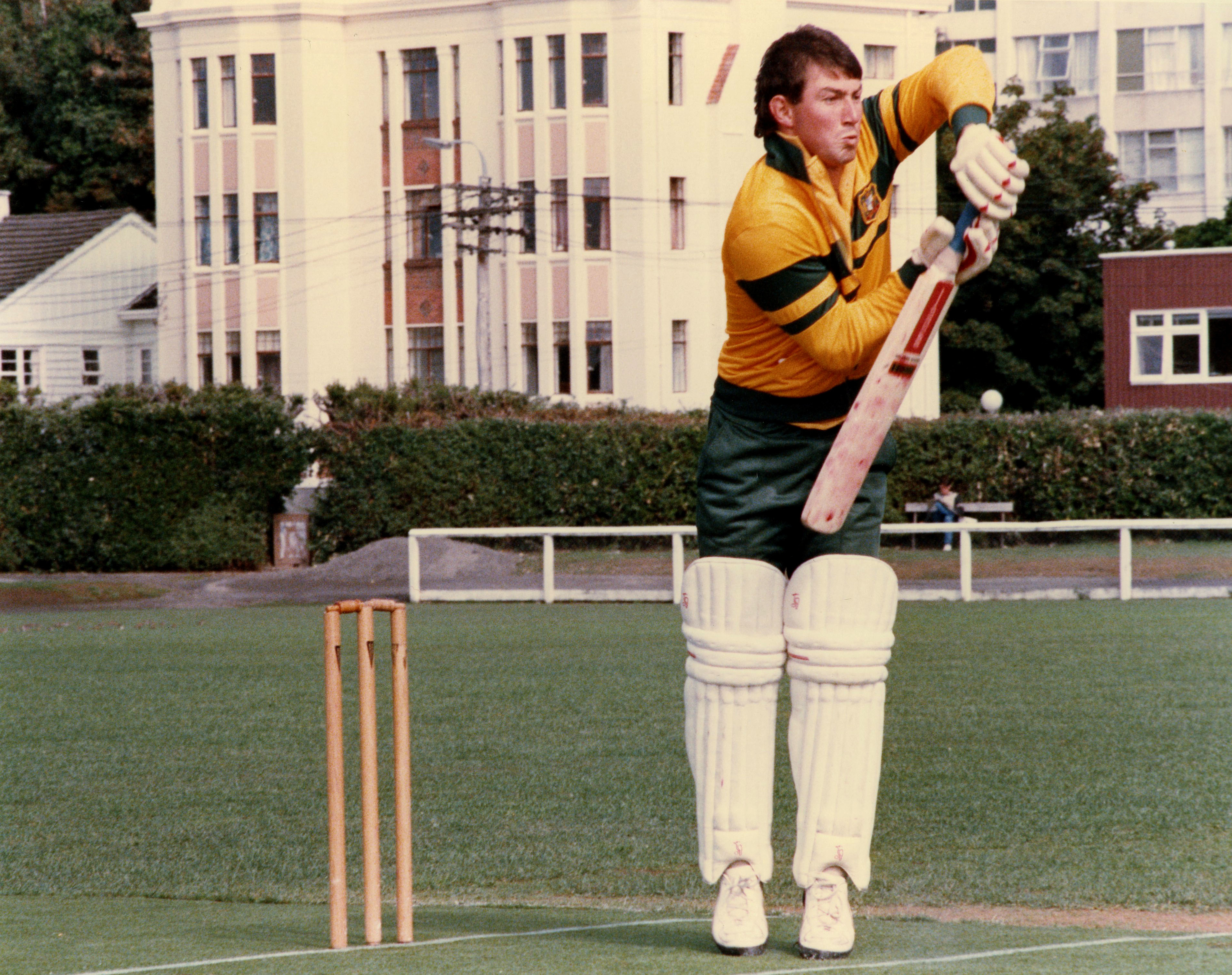 In 1986 a group of Australian Cricket stars visited Victoria University in Wellington to promote the installation of an artificial cricket pitch at Kelburn Park. The park is owned by Wellington City Council but has been the home of Victoria University Cricket Club since 1906. The stars were Allan Border, Craig McDermott, Bruce Reid and Geoff Marsh. We assume that the pitch was sponsored by New Zealand Post as there are images of the pitch with the New Zealand Post logo applied. Pictured here is Geoff Marsh. Geoff Marsh played 50 tests and 117 One Day Internationals for Australia before coaching Australia to victory in the 1999 Cricket World Cup in England. He has two sons, Shaun and Mitchell who are both current Australian International cricket players. This image is from a series of photos transferred by New Zealand Post to Archives New Zealand. The collection was part of the Post Office Museum and Archives. This image and other items from the series can be seen in the Wellington Reading Room of Archives New Zealand. For further enquiries please File Reference: AAME 8106 W5603 125 11/10/111 Throughout the Cricket World Cup 2015, Archives New Zealand will be highlighting a selection of cricket related records which are found in our holdings. For further updates on our cricket posts and other streams follow us on Twitter Material from Archives New Zealand Depicted person: Geoff Marsh – cricketer